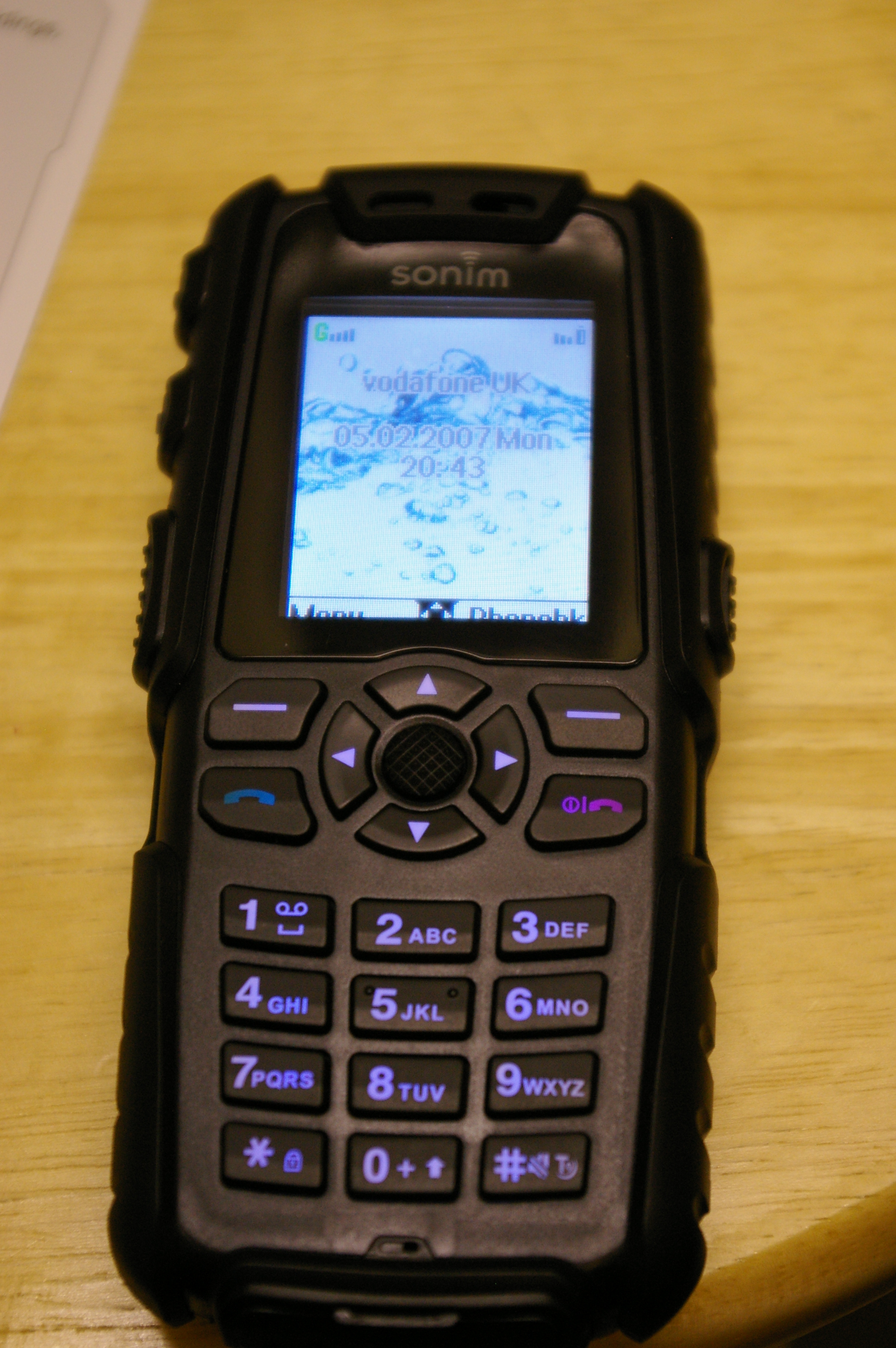 Sonim XP3 unboxing and comparison